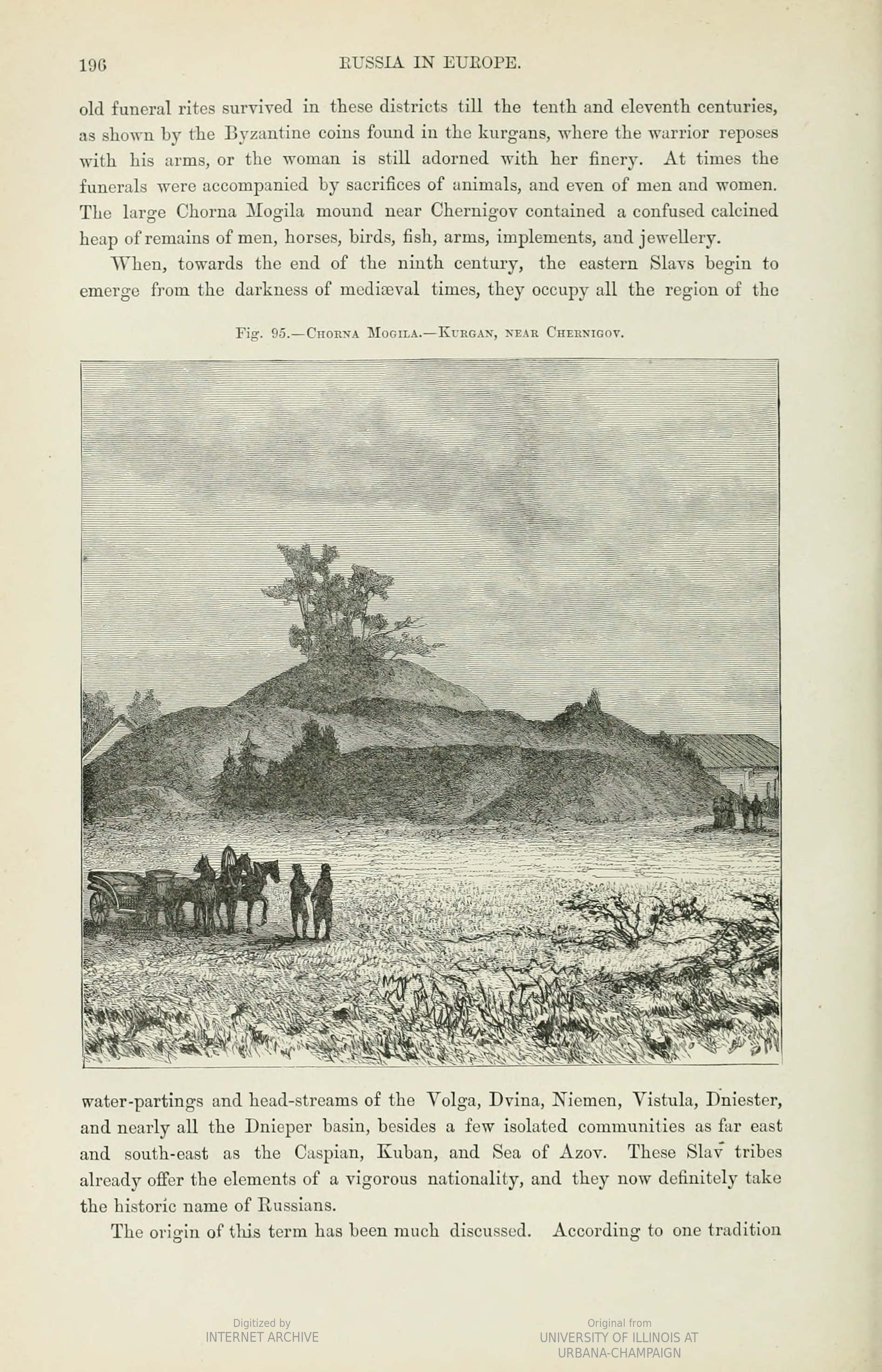 Book Illustration from the 'Nouvelle Geographie Universelle La Terre et les Hommes V : L' Europe Scandinave, Russe etc.' by Jacques Elisee Reclus, published in Paris by Hachette & Cie., 1880. Engraved by Charles Laplante after Achille-Louis-Joseph Sirouy